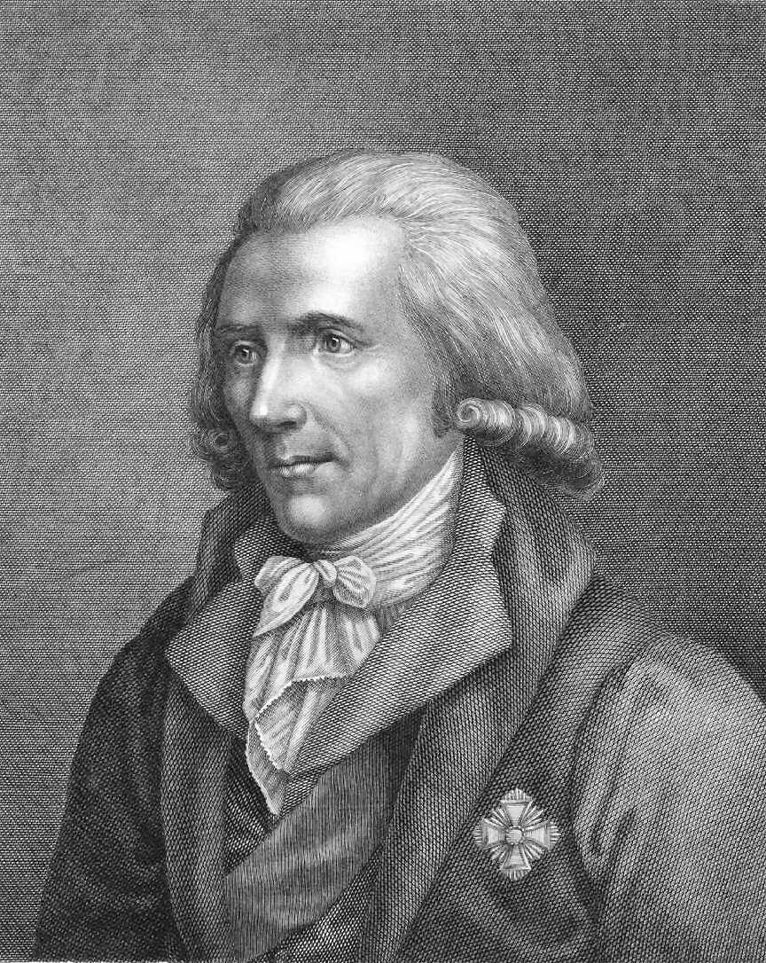 Portrait of Benjamin Thompson, Count Rumford